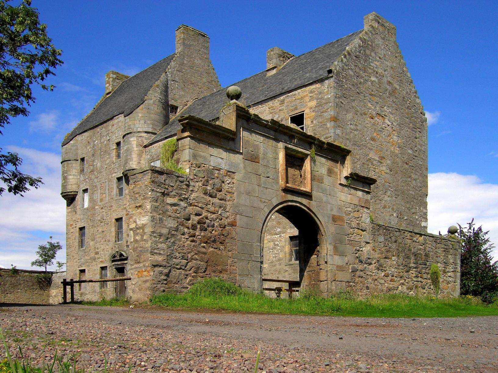 Close View of Midhope Castle.